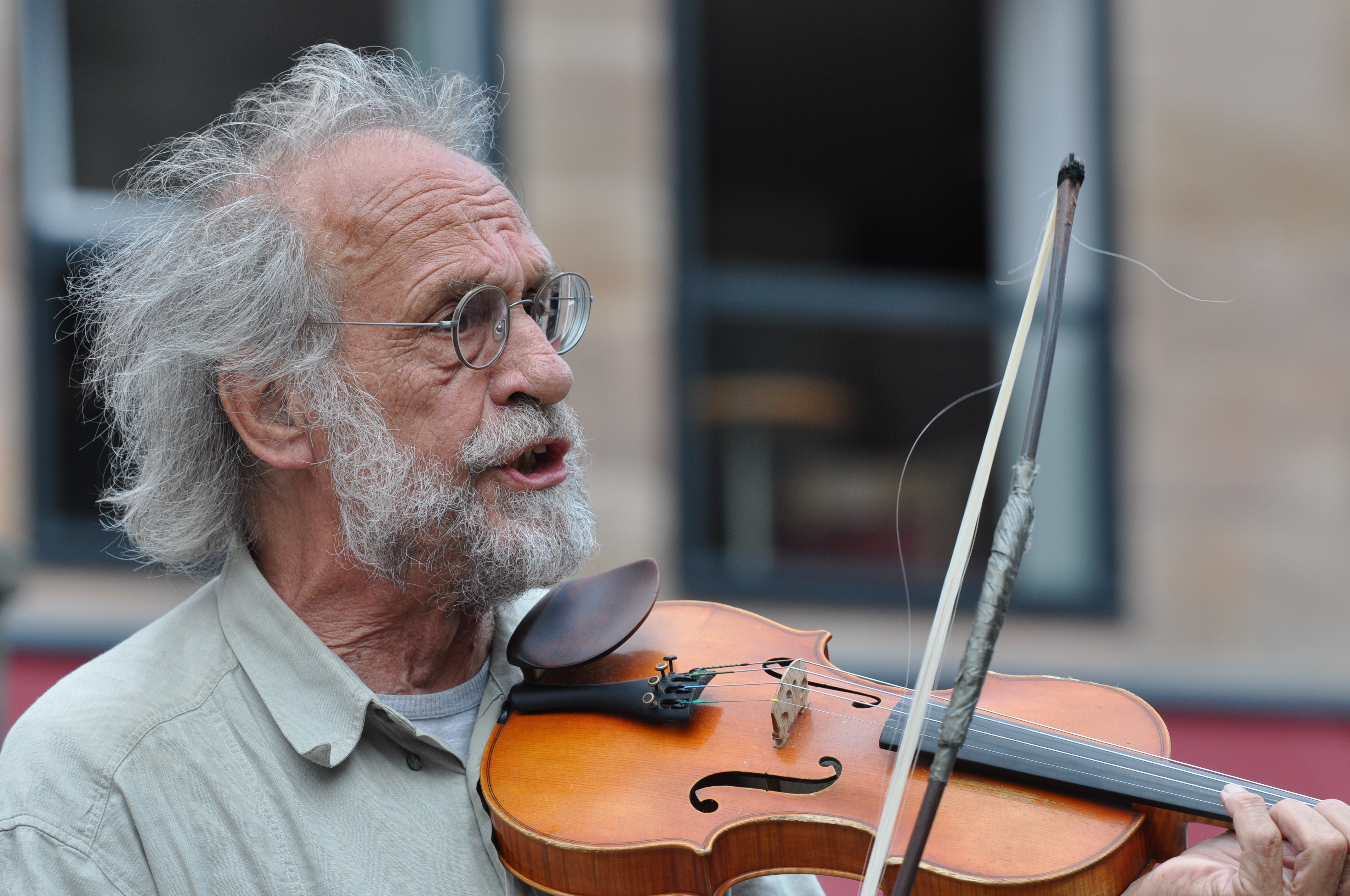 Klaus the Fiddler (Germany), appearance at the 39th music festival "Bardentreffen" 2014 in Nuremberg, Germany, street music / busking